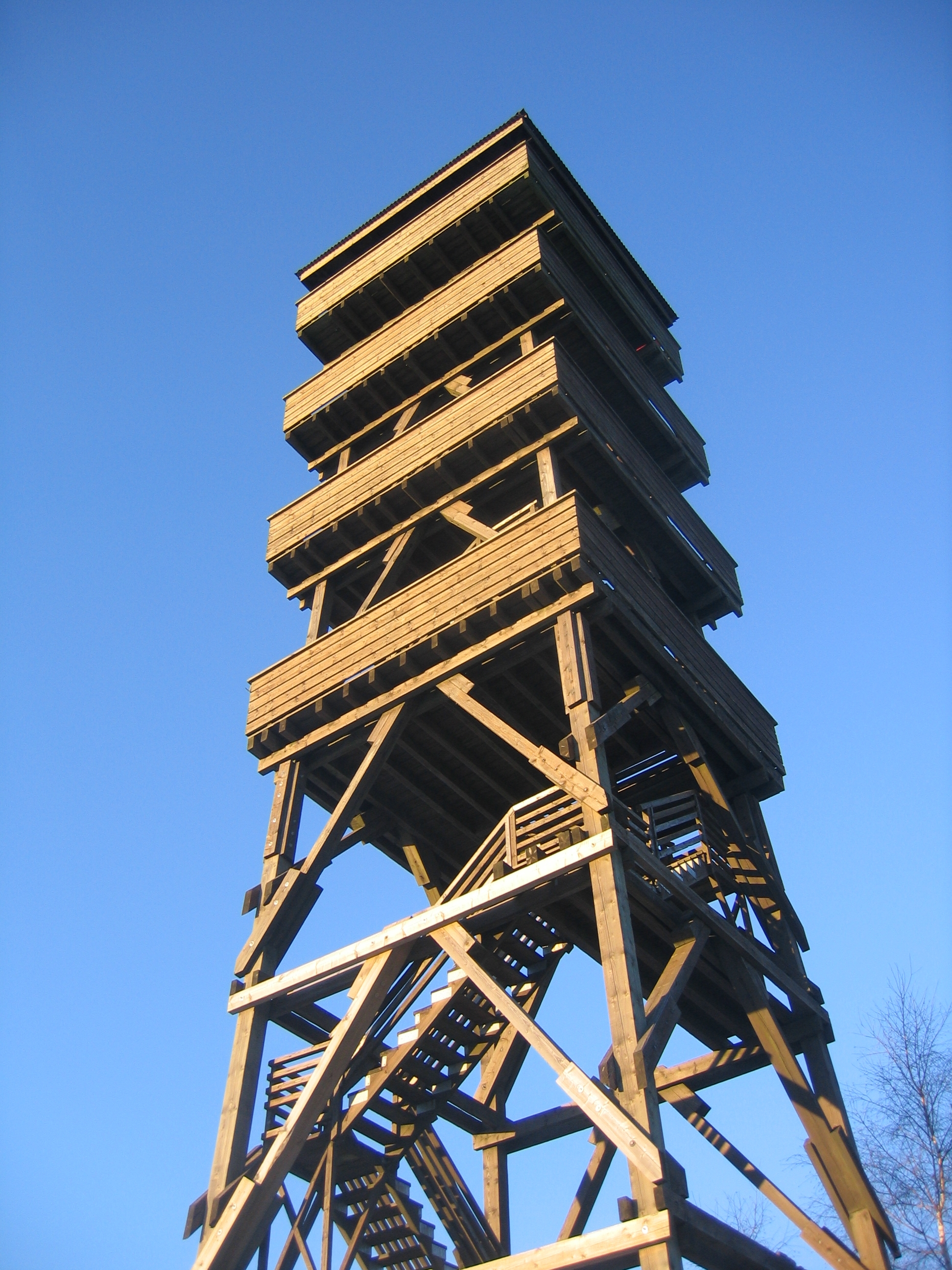 The wooden observation tower on the Weißer Stein, a summit in the Eifel mountains of Germany (demolished in 2011)